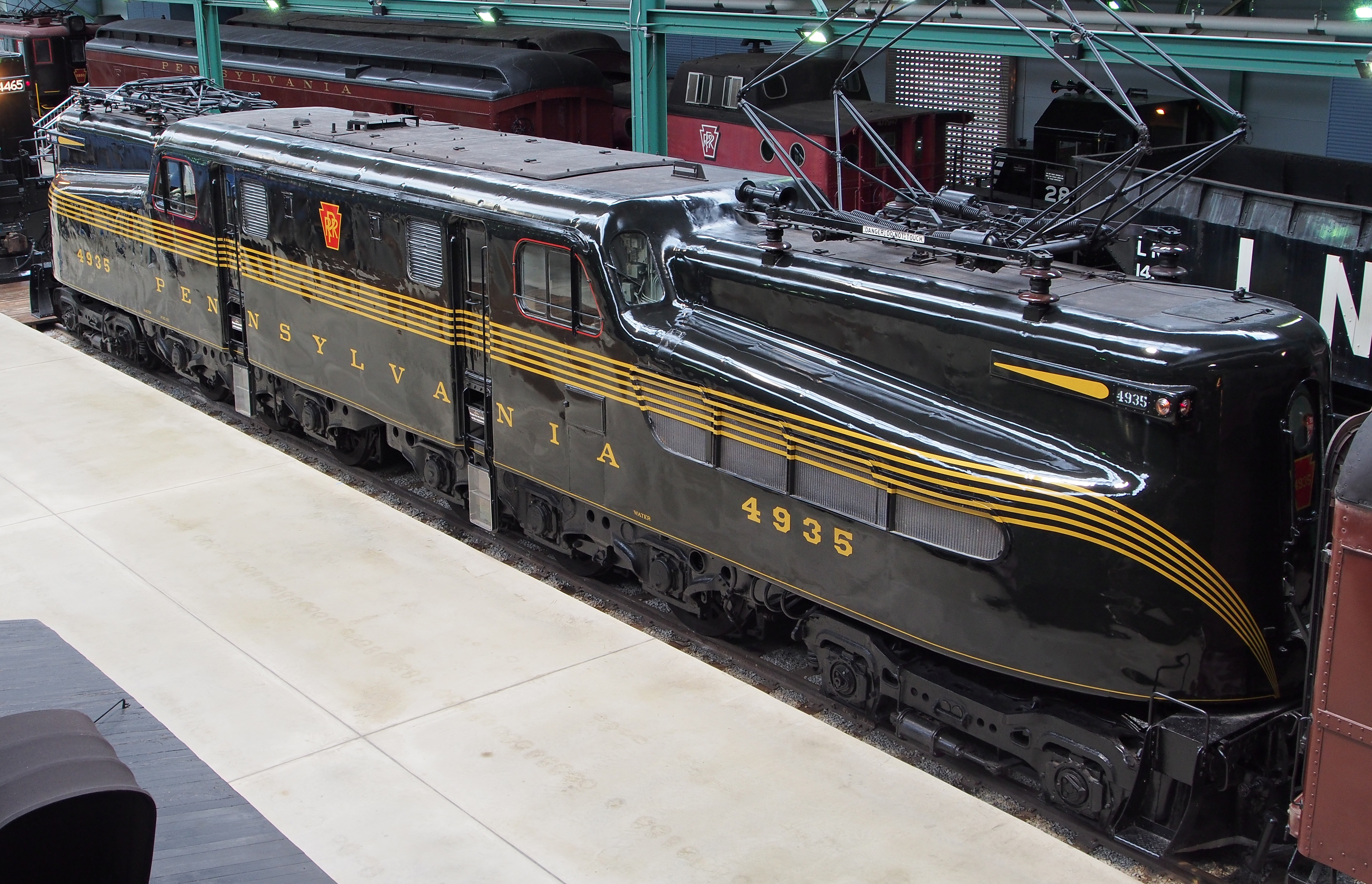 Pennsylvania Railroad locomotive No. 4935 from the Railroad Museum of Pennsylvania. It is listed on the roster as RR83.30.